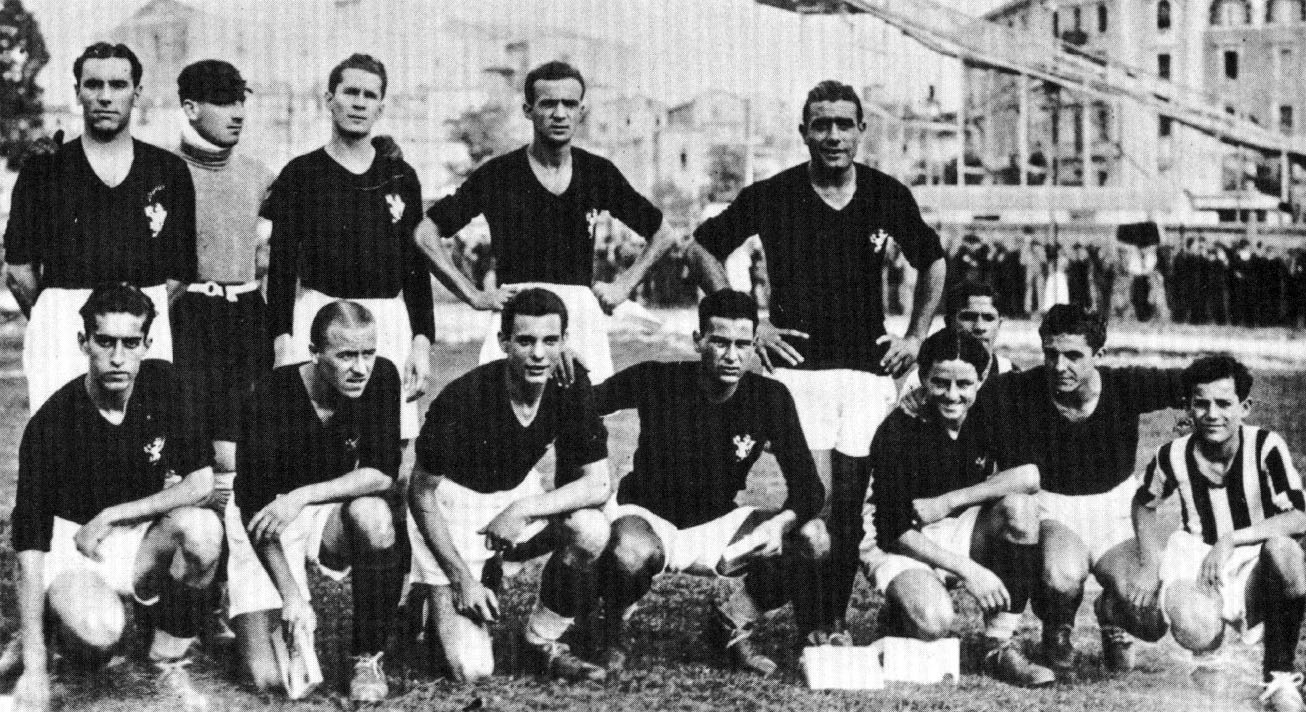 A line-up of A.C. Perugia in the 1933–34 season. From left to right, standing: O. Sola, E. Pangrazi, A. Preti, Lolli, R. Mancini; crouched: Vitalesta, E. Brossi, G. Zanni, G. Scategni, L. G. Nebbia (II), A. Tiberti.